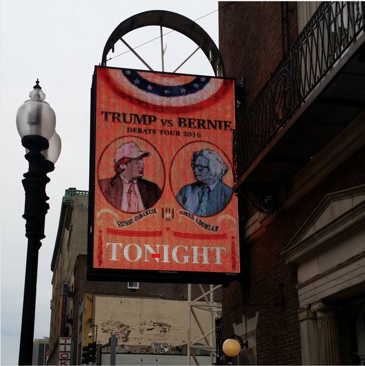 Venue for Trump vs. Bernie mock debate in Boston.